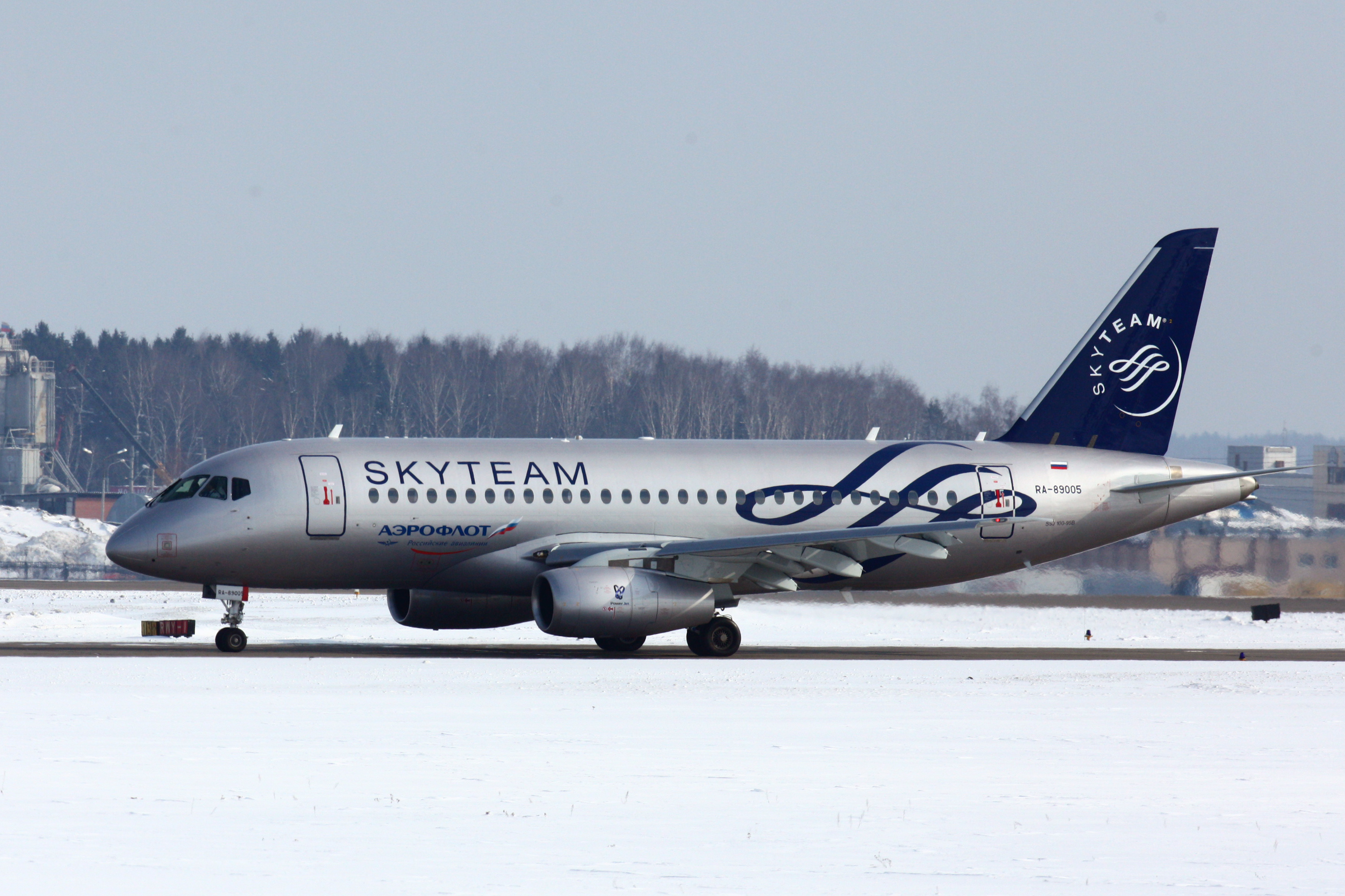 March 6, 2012 Moscow Aeroflot Russian Airlines puts its sixth Sukhoi Superjet 100 aircraft (SSJ100) in operation. The airliner is painted in the SkyTeam livery. Read the news